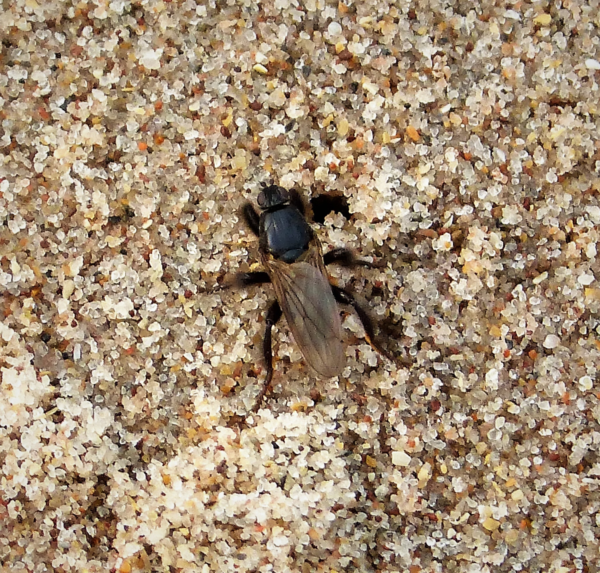 Torness , S.E. Scotland NT737753